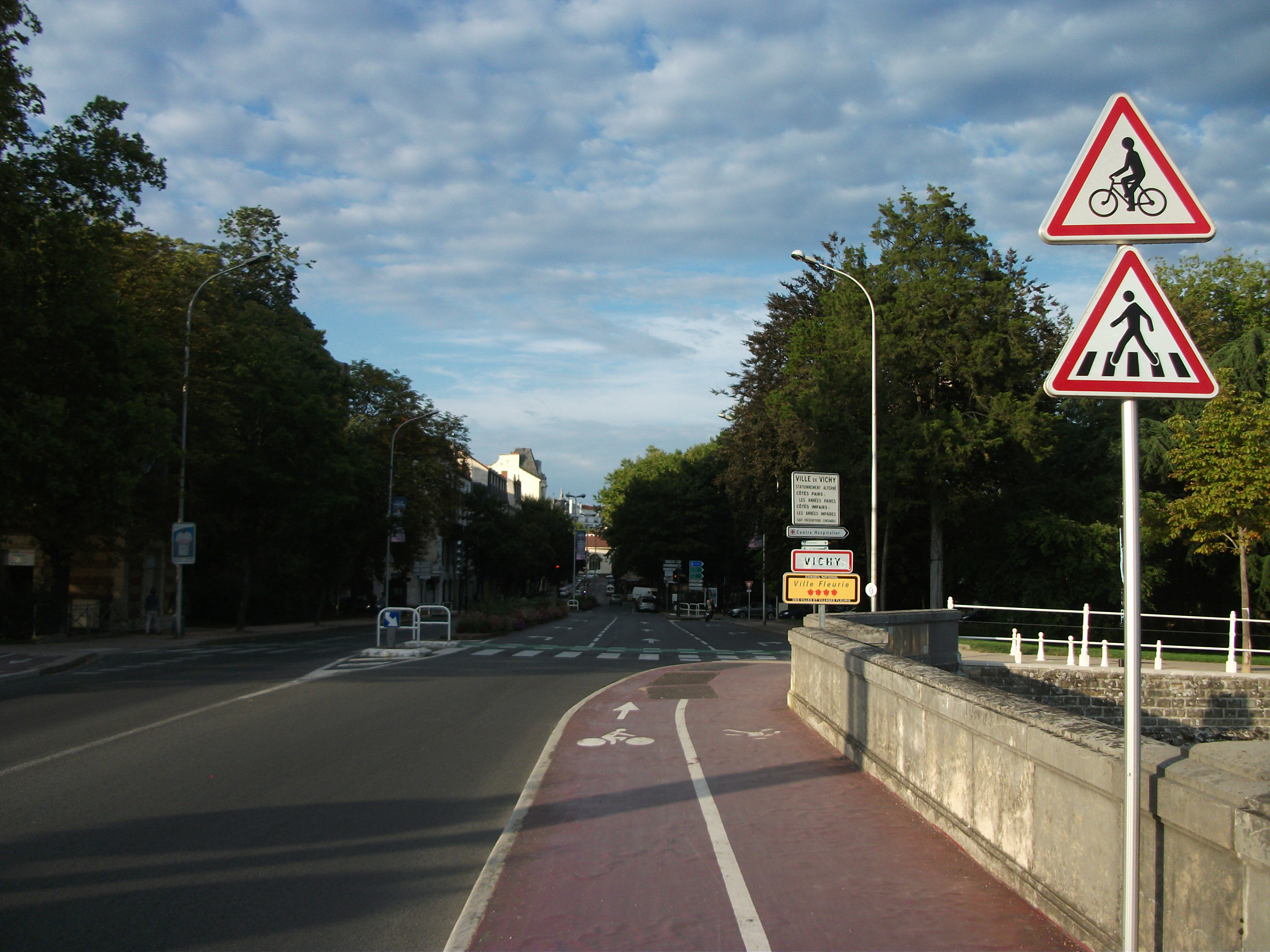 Entrance of Vichy from Bellerive bridge (all signs made by the same manufacturer: A21 in 2011, A13b in 2004, EB10 in 2009, "Ville fleurie" put in 2014) [8686]